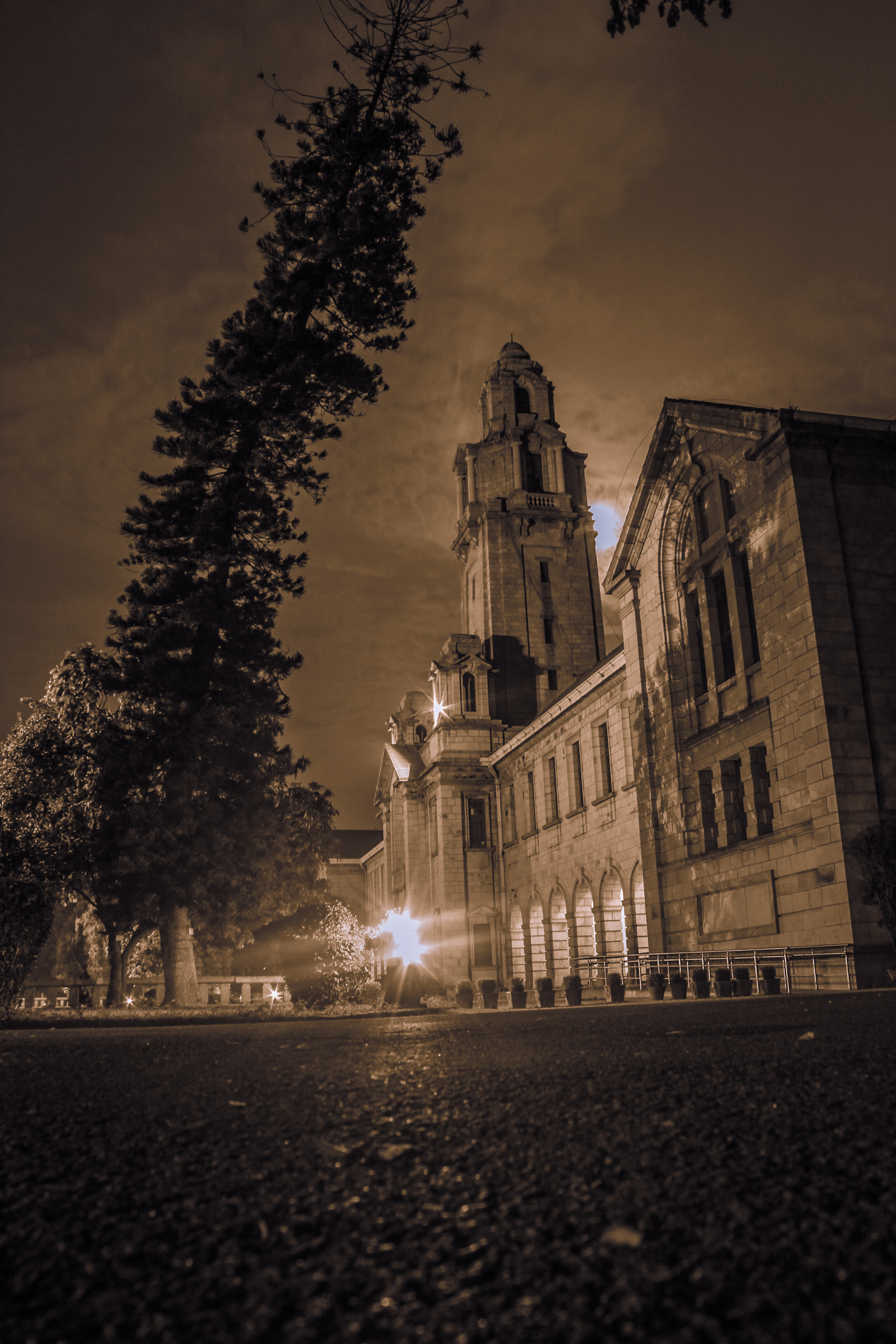 This is main building of Indian institute of science locally called as TATA institute. This institute is now holding rank one in India in research. This building is historic architecture built in early 19s' .